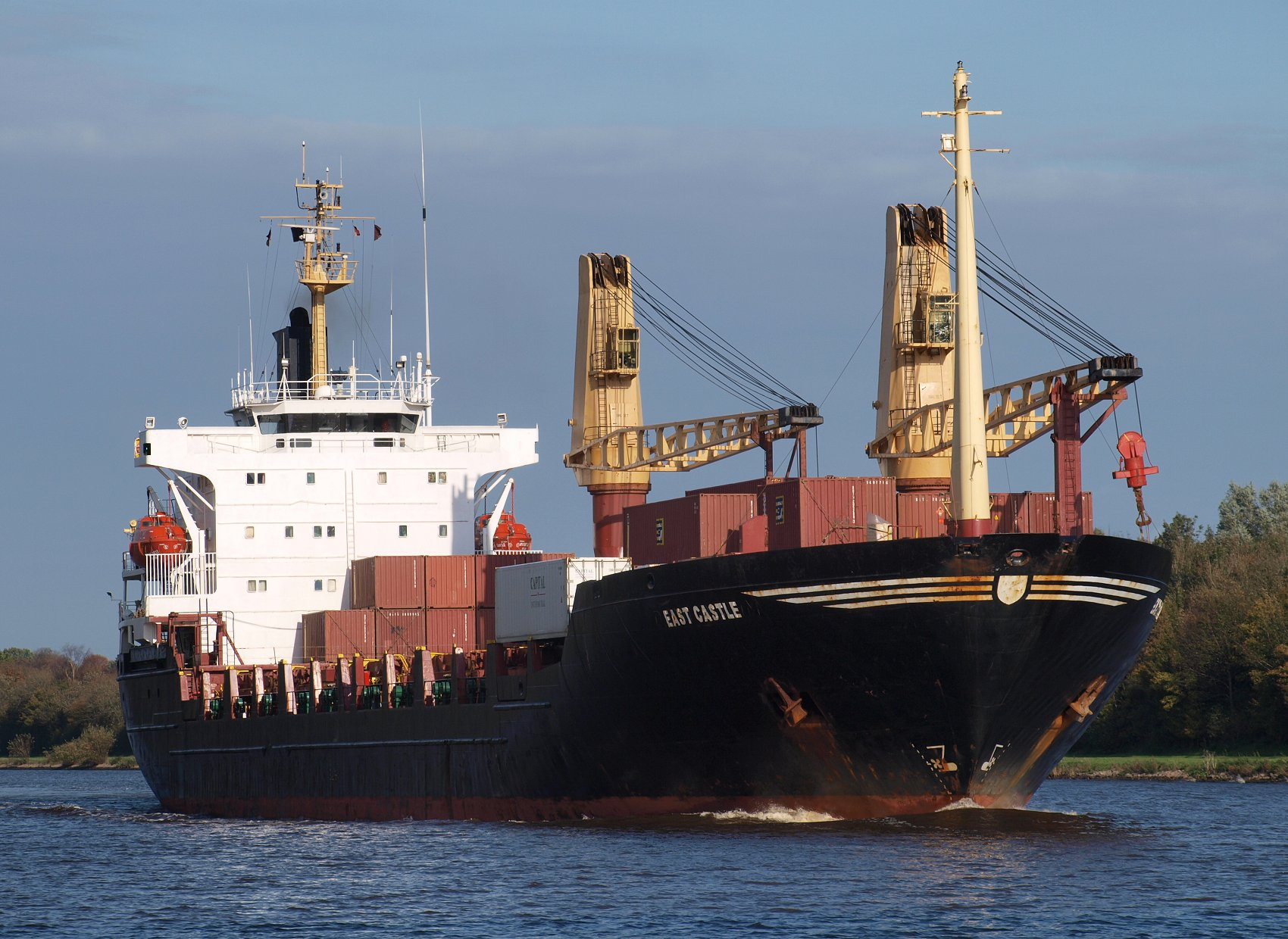 Container ship EAST CASTLE (IMO 8215778) built at J.J. Sietas Schiffswerft, Hamburg-Neuenfelde (Sietas type 114, yard № 856), 22-01-1983 launched as DAVID BLUHM, 13-03-1983 delivered as VILLE D'AURORE, later names: 1983 ANNAPURNA, 1988 DAVID BLUHM, 1988 EAGLE SEA, 1990 DAVID BLUHM, 1990 OOCL AFFLUENCE, 1992 DAVID BLUHM, 1993 EAGLE PROSPERITY, 1999 RANGE, 2008 AMEGLIA STAR, 2009 EAST CASTLE, 2013 AMNEH-F, 17-11-2015 arrived Alang for scrapping, 26-11-2015 beached Alang for BU; photo by Jens Dohrn, Kiel Canal, 21-10-2011.